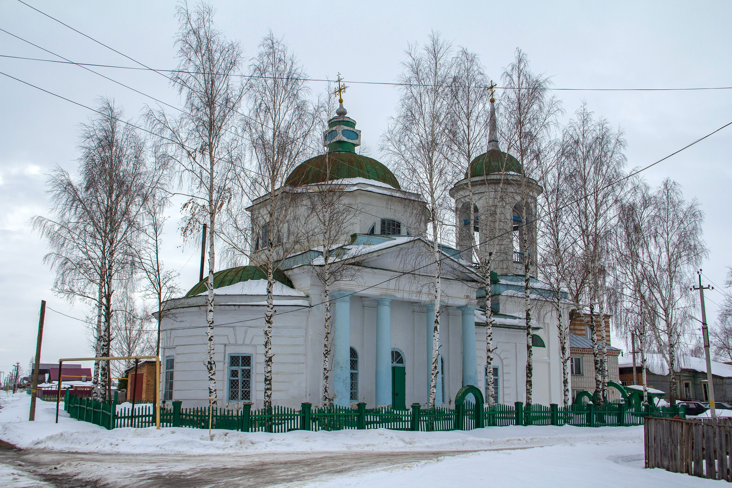 St. Peter and St. Paul's Church (1816). Russia, Chuvashia, Poretsky District, village (selo) Poretskoye